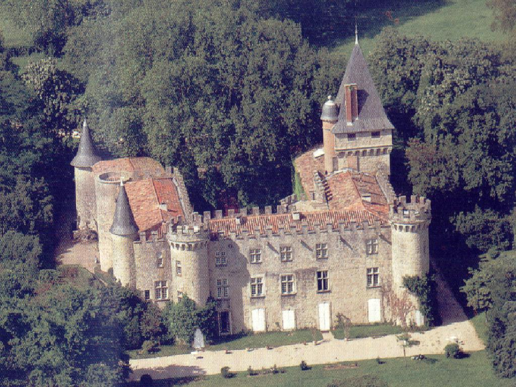 Aerial picture of the chateau of Montespieu in Naves, France.